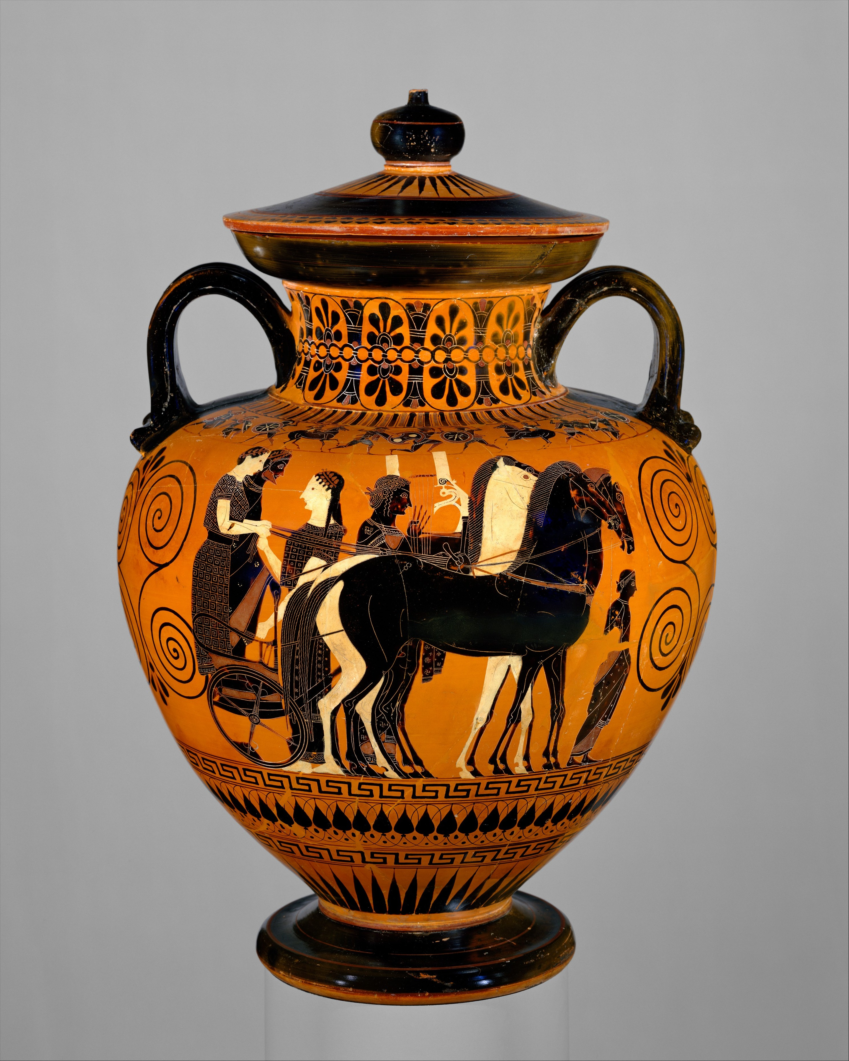 Greek, Attic; Neck-amphora with lid; Vases